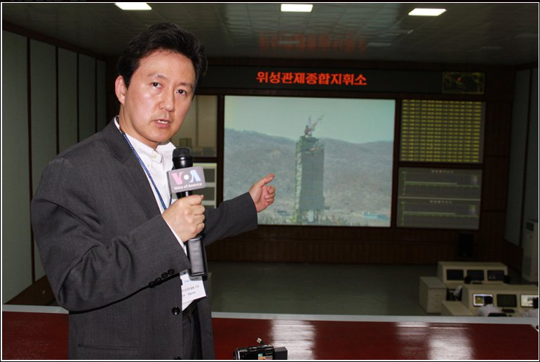 VOA reporter Sungwon Baik in North Korea space center. VOA journalist Sungwon Baik engaged in coverage activities in North Korea. Baik was among foreign journalists allowed rare access to various news events, including firsthand look at the North’s rocket launching site. Baik arrived in Pyongyang on April 7 and plans to return on April 17.